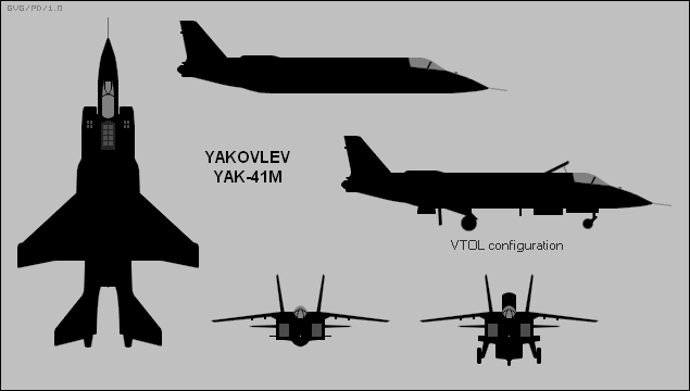 3-view silhouettes of the Yakovlev Yak-41M (a.k.a. Yak-141) V/STOL fighter Yak-141_3D